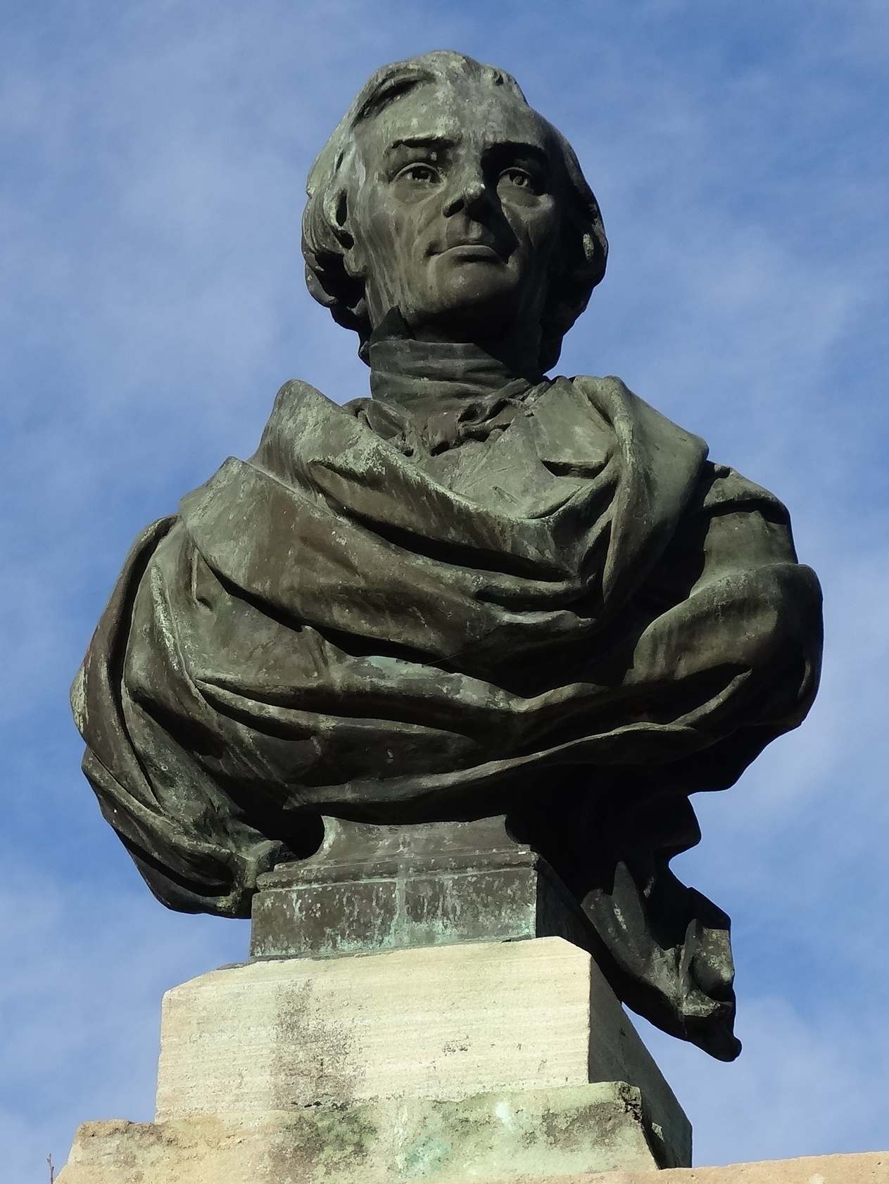 Bust of Frédéric Bastiat (in Mugron, France)